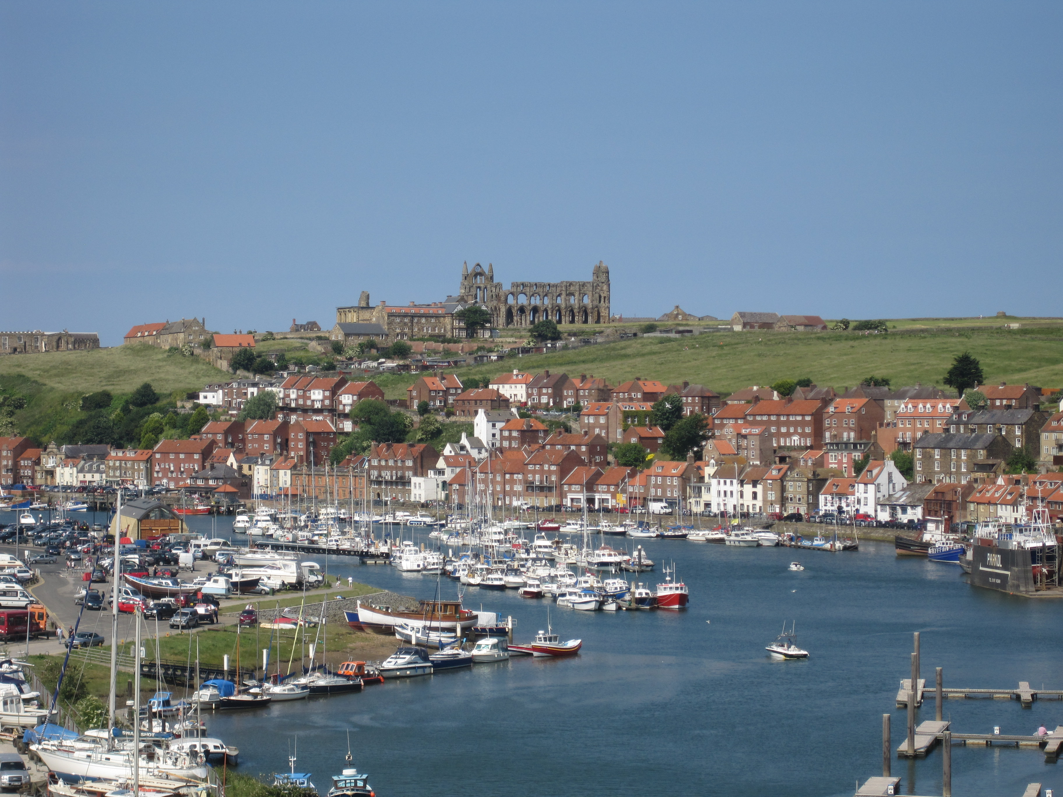 Whitby Harbour and Abbey